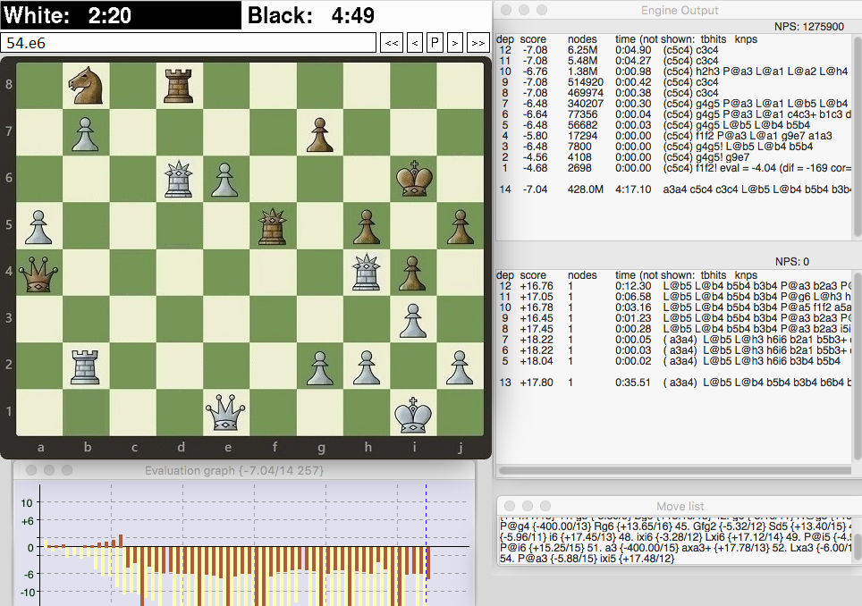 A sample chess game being played using Fairy-Max software. Note: Fairy-Max is a chess engine and the actual output depends on the GUI it is used with. This is an arbitrary image showing some data output possible when using Fairy-Max software.